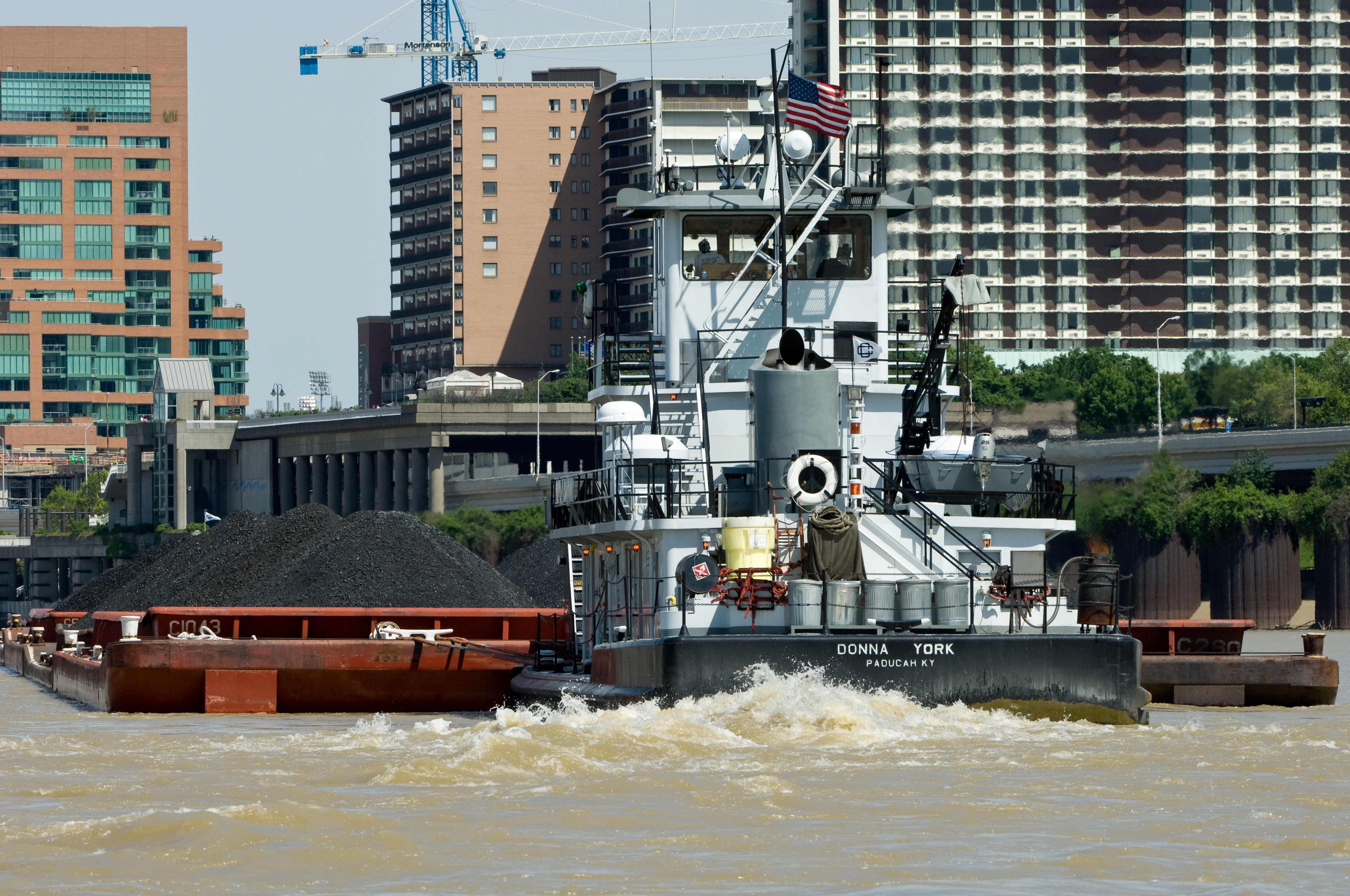 The towboat, Donna York, pushing barges of coal up the Ohio river. The tow had just exited the Portland canal at Louisville, Kentucky.